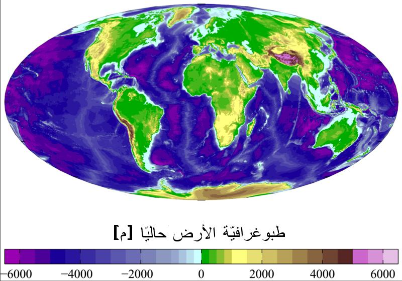 Present day Earth altimetry and bathymetry at 15 minute horizontal resolution. Derived from the National Geophysical Data Center's TerrainBase Digital Terrain Model (v1.0). The original dataset is at 5 minute resolution, and this has been averaged down to 15 minute resolution. It is plotted here using a Mollweide projection (using MATLAB and the M_Map package).